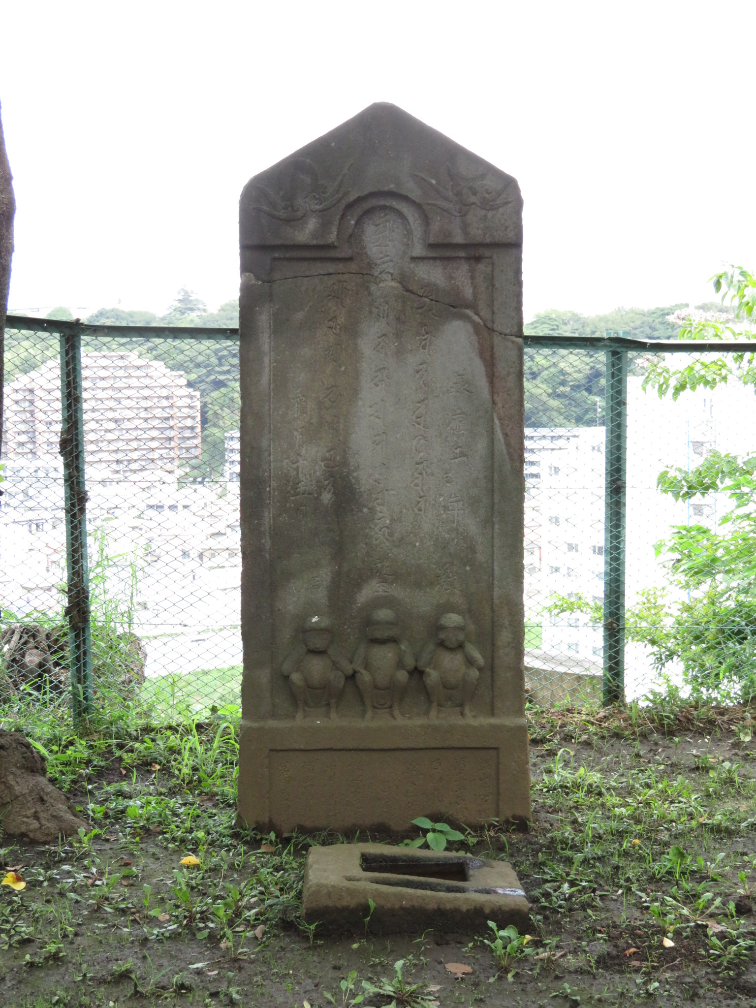 Kōshinkuyōtō at Iseyama in Fujisawa City, Kanagawa Prefecture, Japan